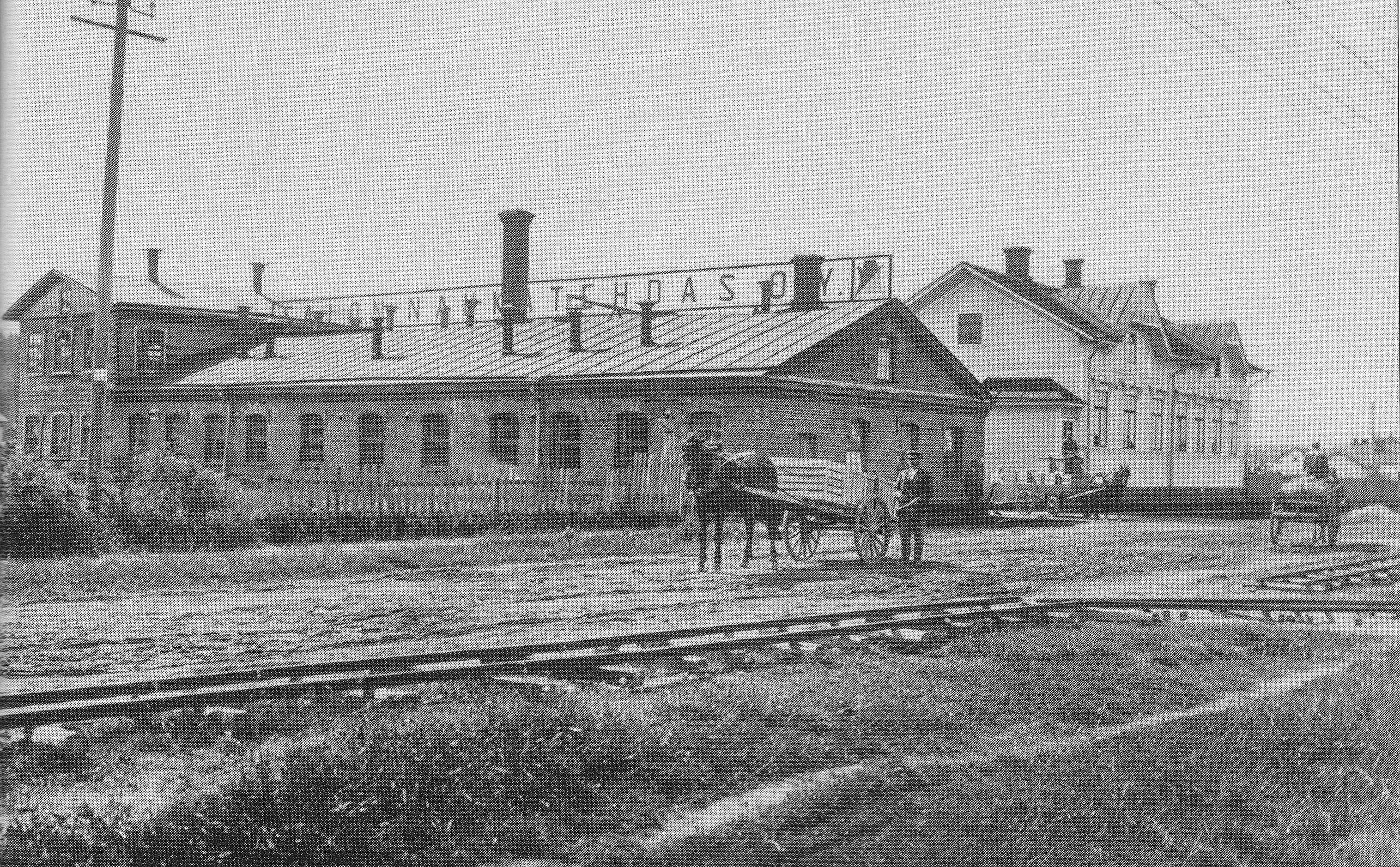 Tehdaskatu about 1900